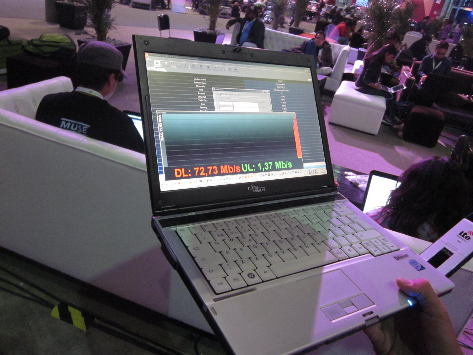 4G LTE download test at Campus Party Mexico 2011 (CPMX3)